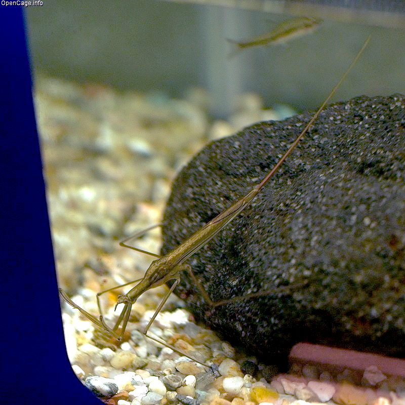 ミズカマキリ Ranatra chinensis Water stick-insect Location 伊丹市立昆虫館 Copyright OpenCage